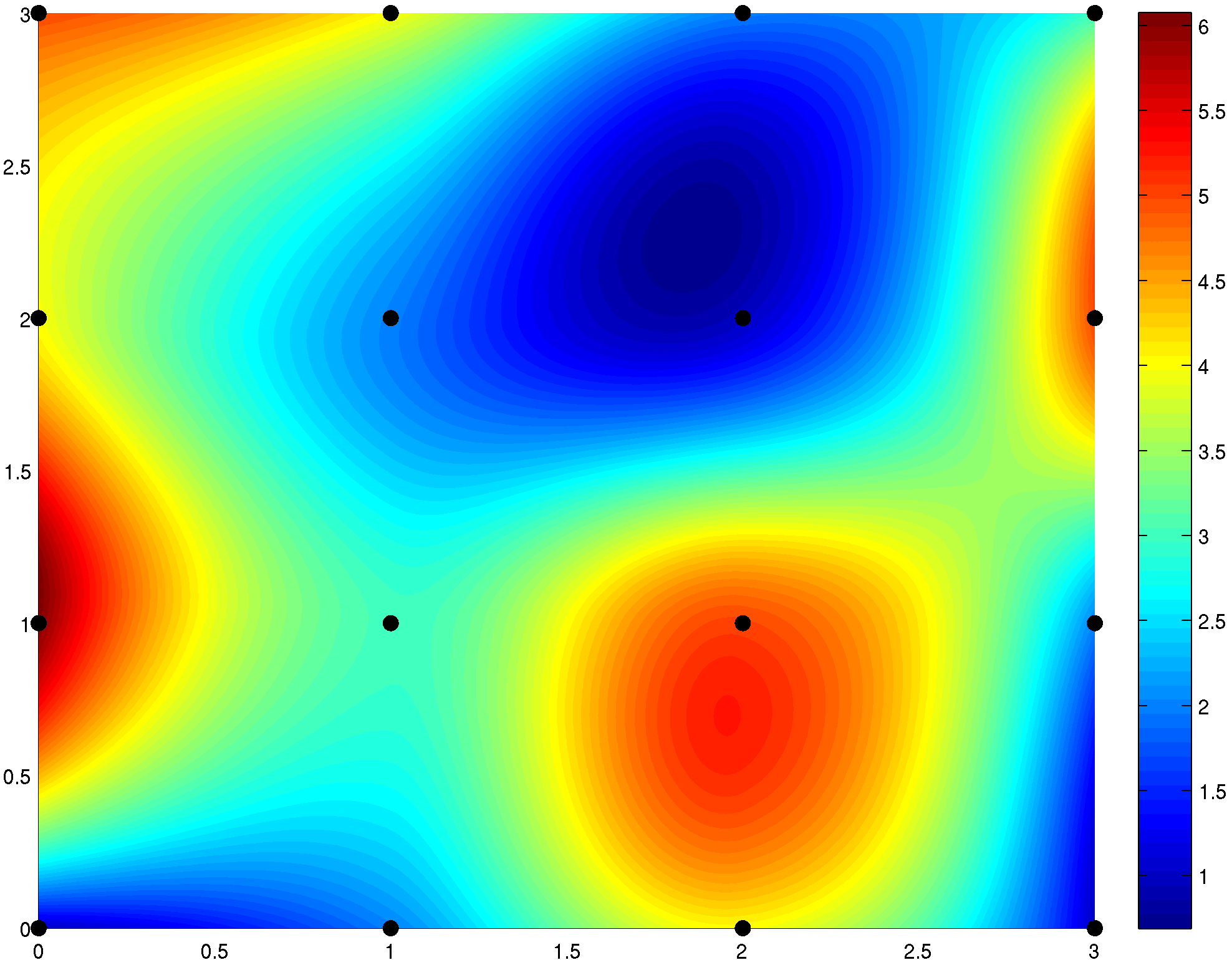 Illustration of Bicubic interpolation on a dataset. Compare with Image:Nearest2DInterpolExample.png and Image:BilinearInterpolExample.png, they share the dataset.